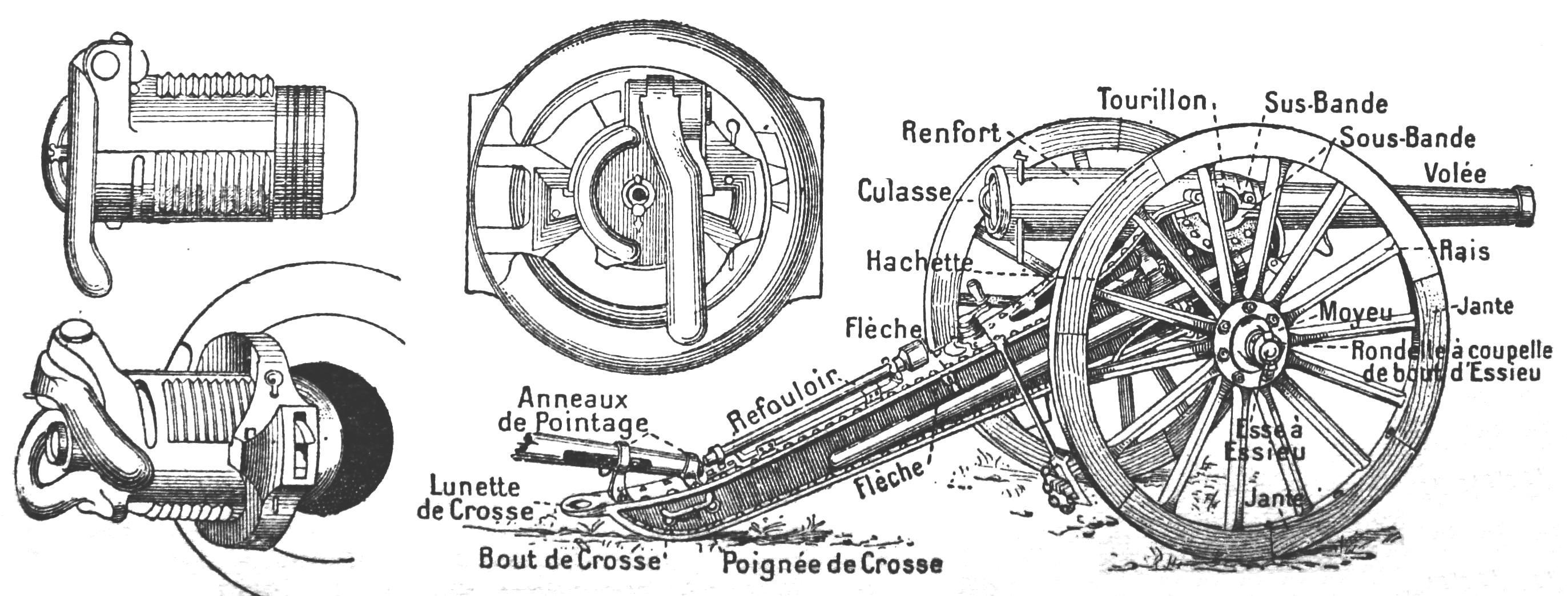 De Bange 90mm field cannon and breech system.